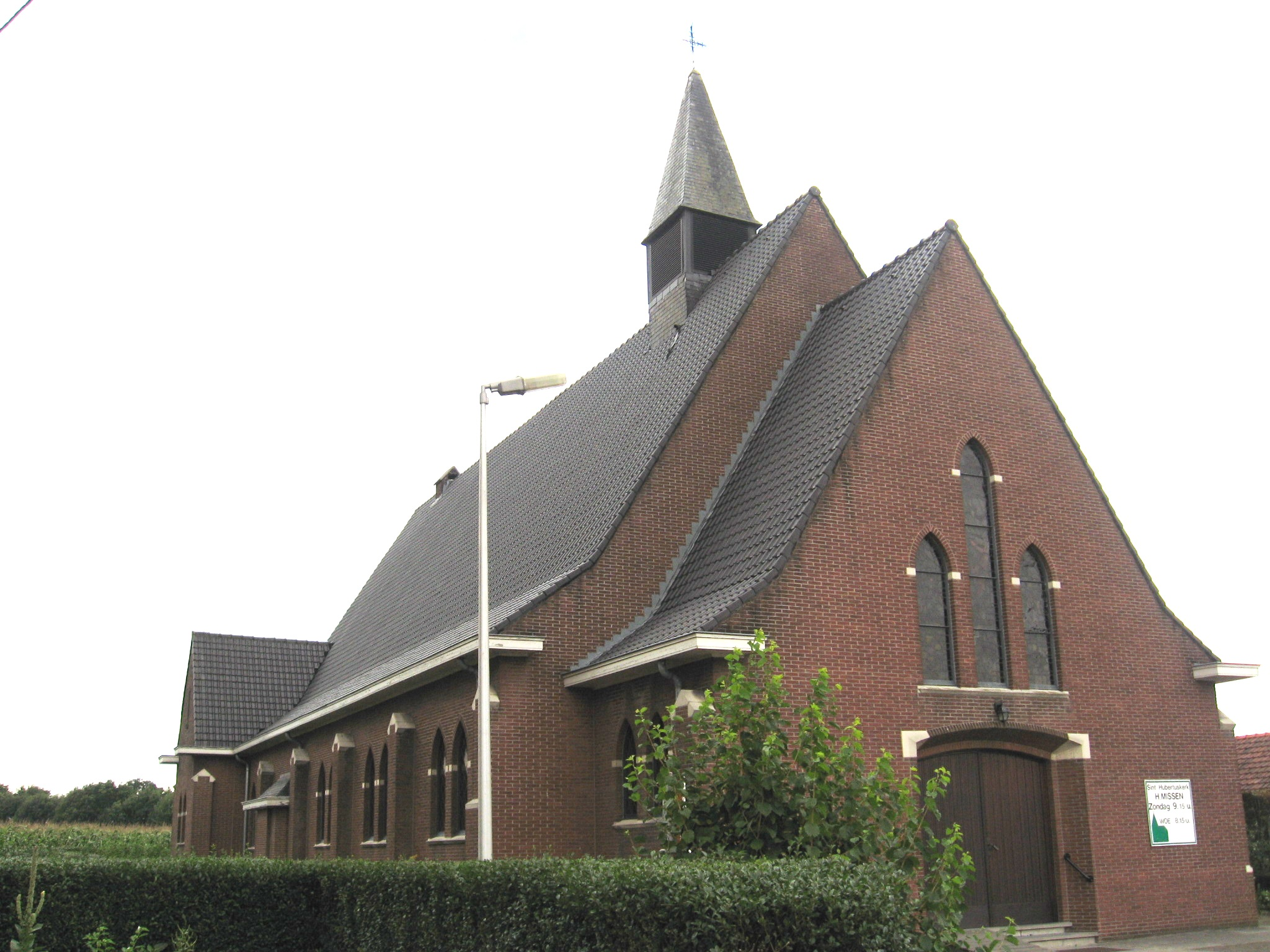 Church of Saint Hubert in Grote-Brogel (Erpekom), Peer, Limburg, Belgium